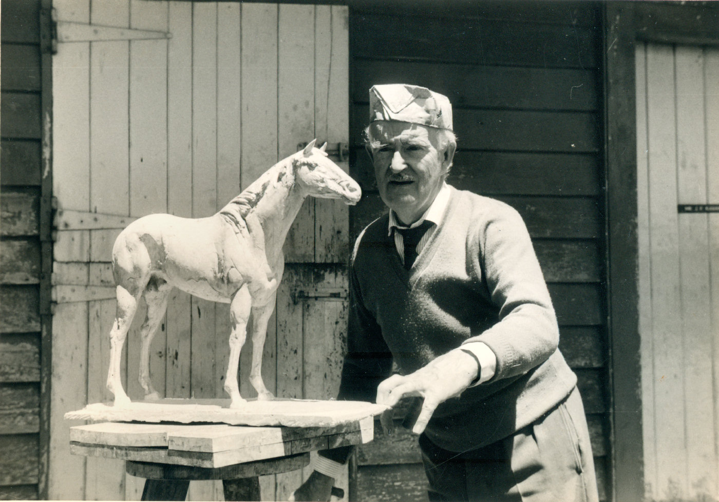 John Kavanagh's sculpture of Battle-waggon. March 1972. Possibly outside his studio at the stables, Lonsdale Street, Ellerslie. Commissioned by the New Zealand Racing Club.